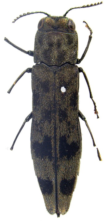 Agrilus perroti Descarpentries & Villiers, 1963.